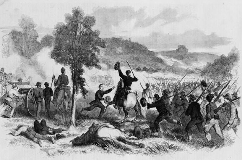 The charge of the First Iowa Regiment, with General Lyon at its head, at the Battle of Wilson's Creek, near Springfield, Missouri, August 10, 1861 / from a sketch by our special artist in Major-General Fremont's Division. Published in: Frank Leslie's illustrated newspaper, v. 11, 1861 Aug. 31, p. 244.